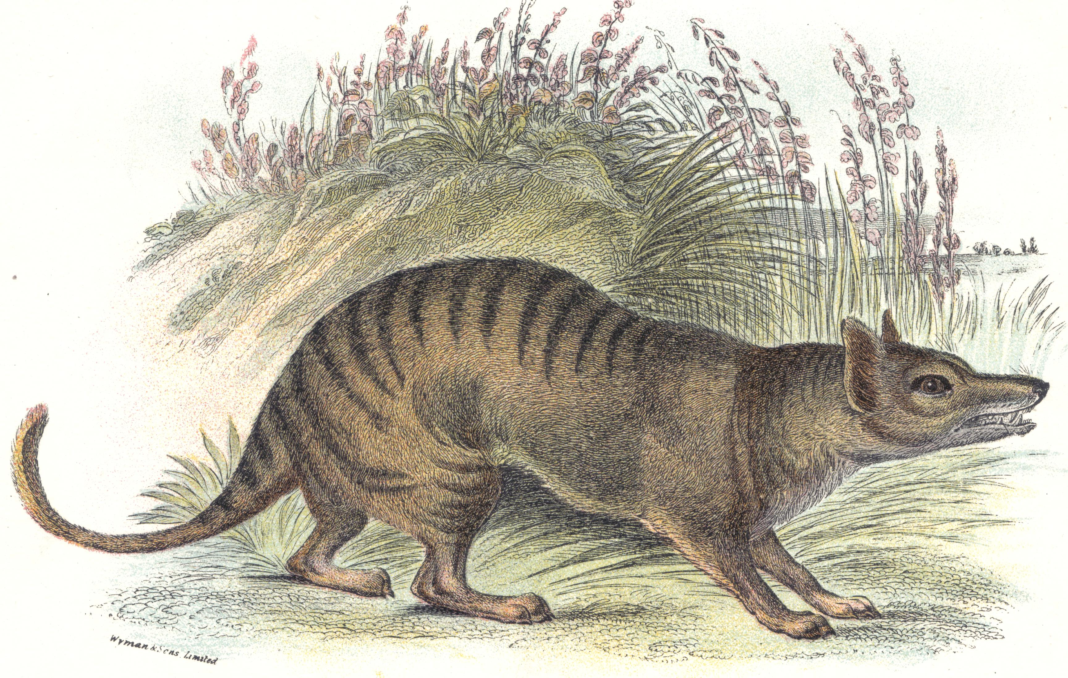 The Thylacine, an apex predator in Australia, Tasmania and New Guinea before it became extinct in the early 20th century. Lydekker, Richard. A hand-book to the marsupialia and monotremata. London: E. Lloyd, 1896.